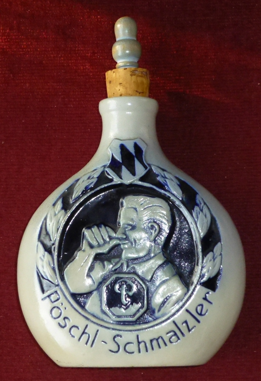 Snuff tobacco stoneware bottle by Pöschl, Landshut, Bavaria